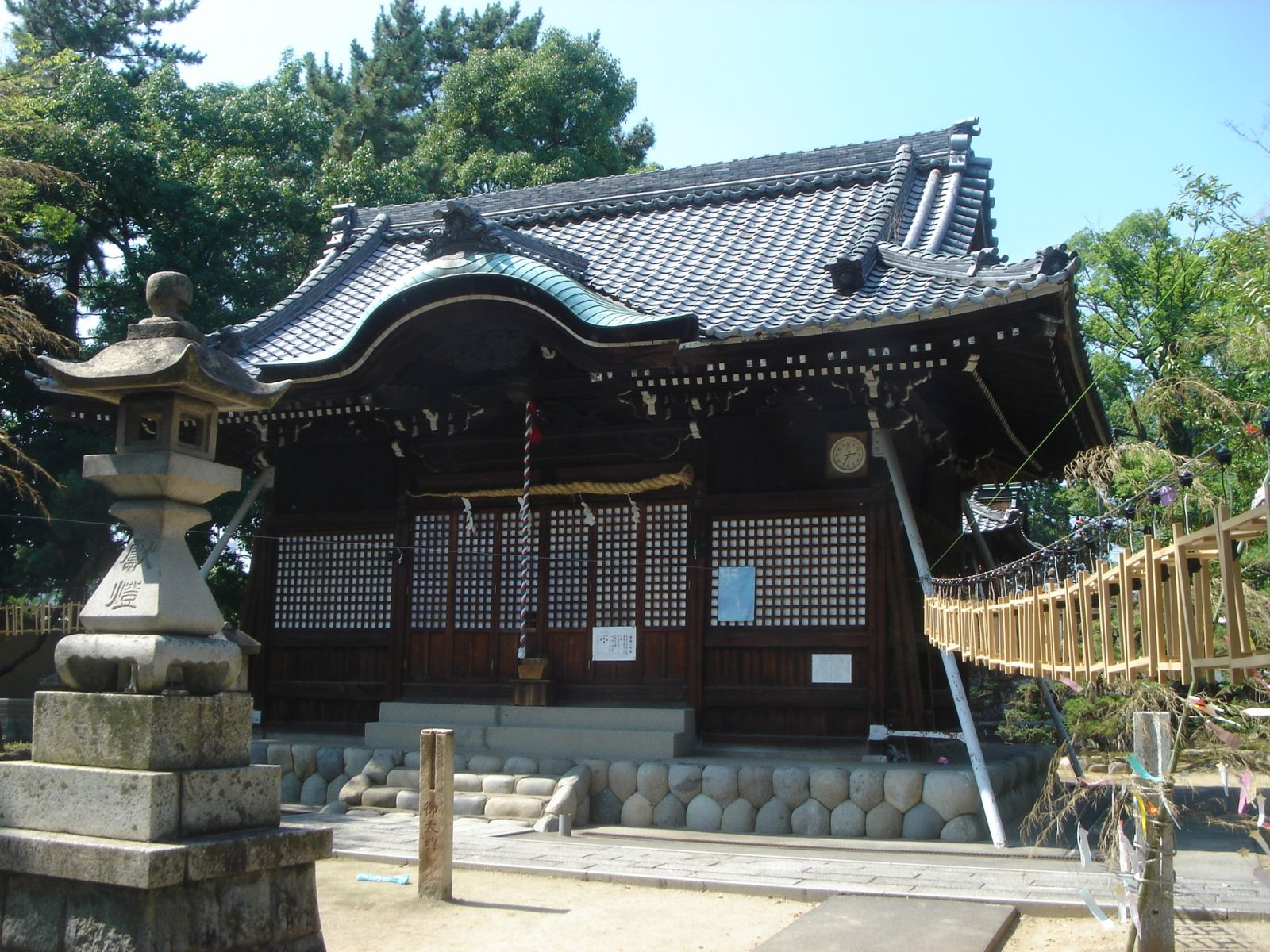 Honjo Jinja(Shrine)in Gifu City